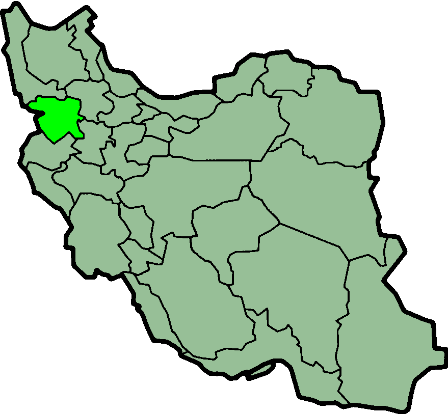 Province of Kordestan, Iran